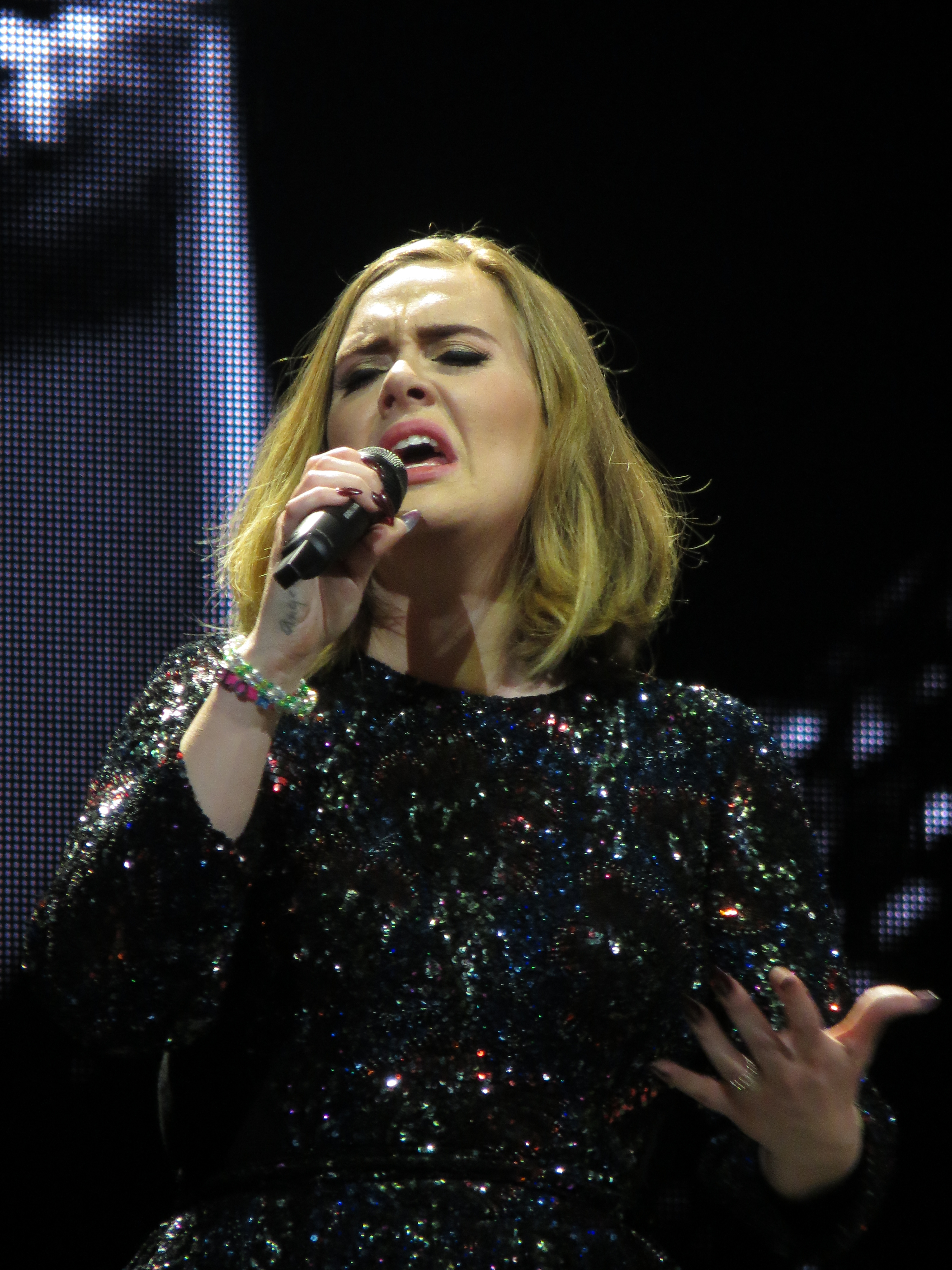 Adele Live 2016, Glasgow SSE Hydro, on 26 March 2016.